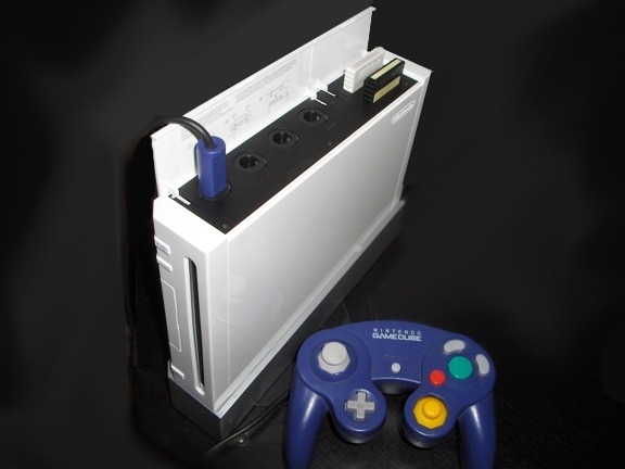 Wii is backwards combatible with the GameCube: GameCube's controller and two memory cards connected to Wii